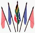 See Image:SouthAfricaFlagNonNational.jpg